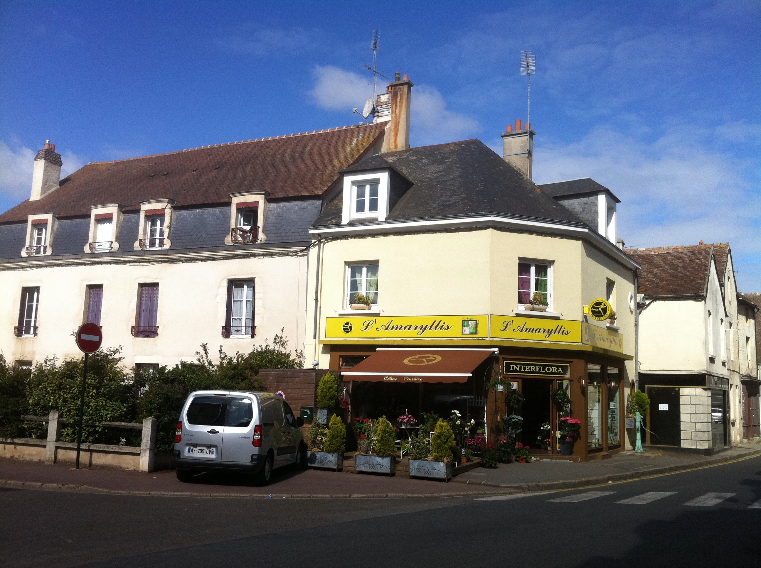 Flower shop formerly an inn where Henri IV stayed when visiting Ecouché